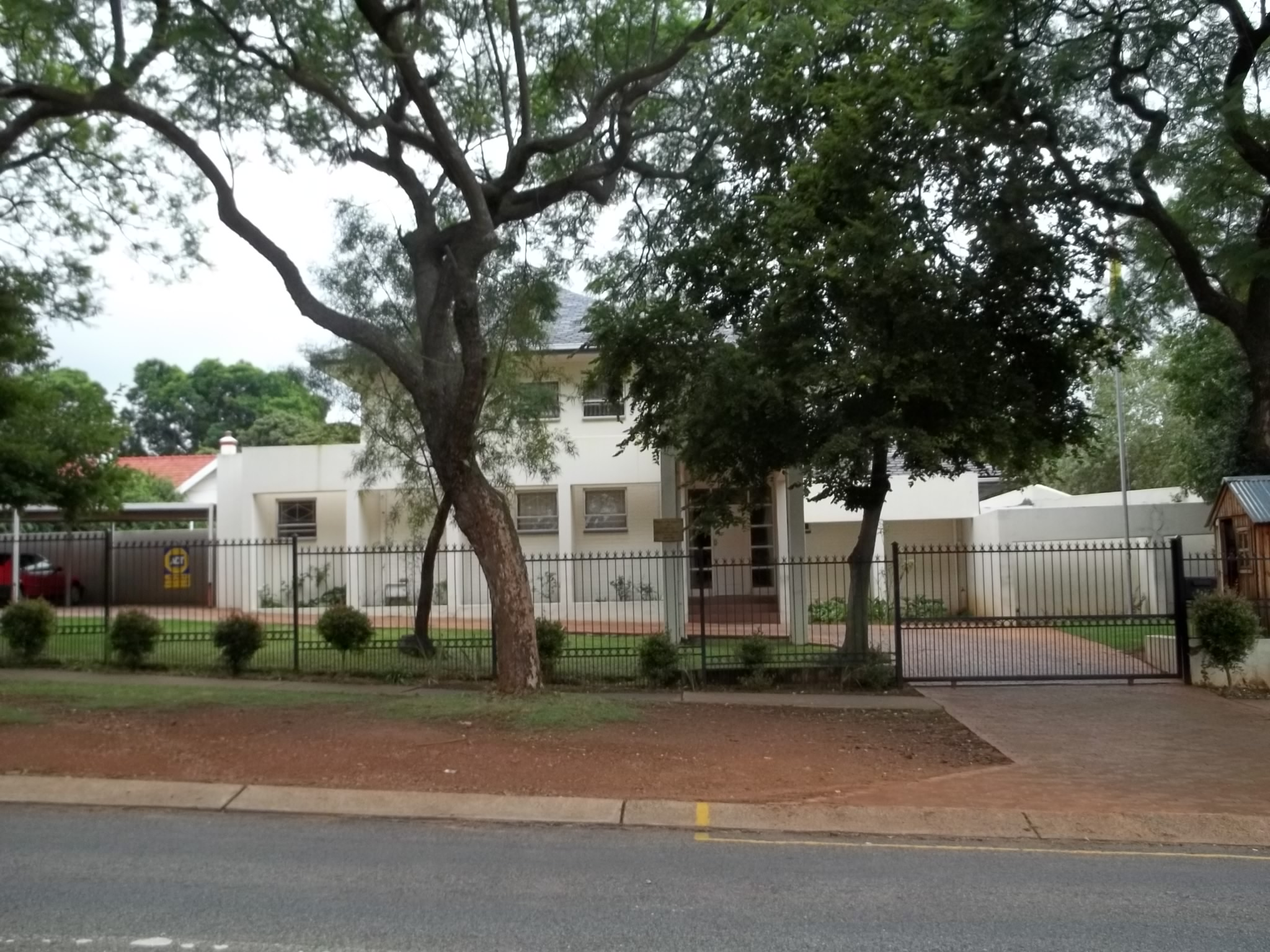 GE in ZA